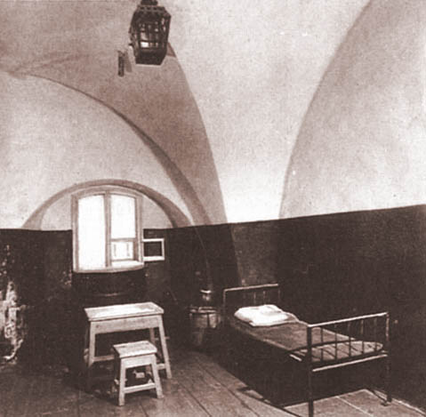 A photo of the interior of the prison in Kievan fortress